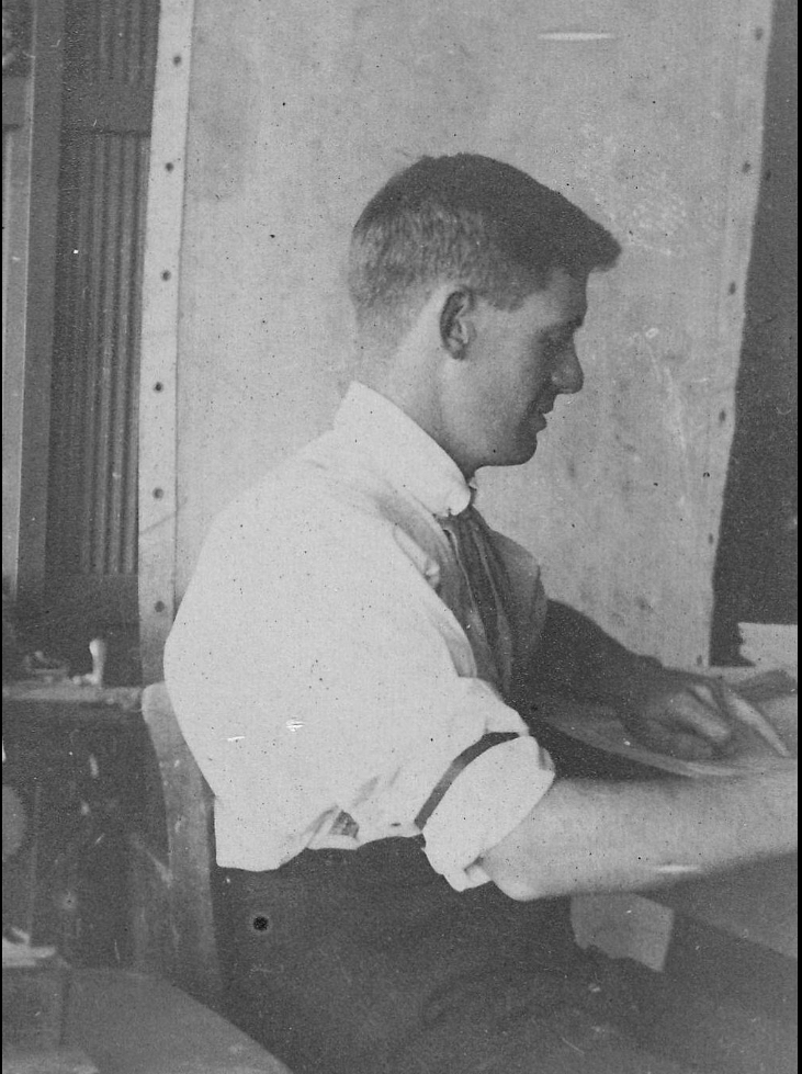 Hugh Wrigley at work as a defense clerk in Adelaide in 1914